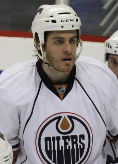 Edmonton Oilers at Colorado Avalanche, 2/6/10 @ Pepsi Center, Denver CO USA